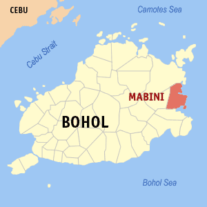 Map of Bohol showing the location of Mabini